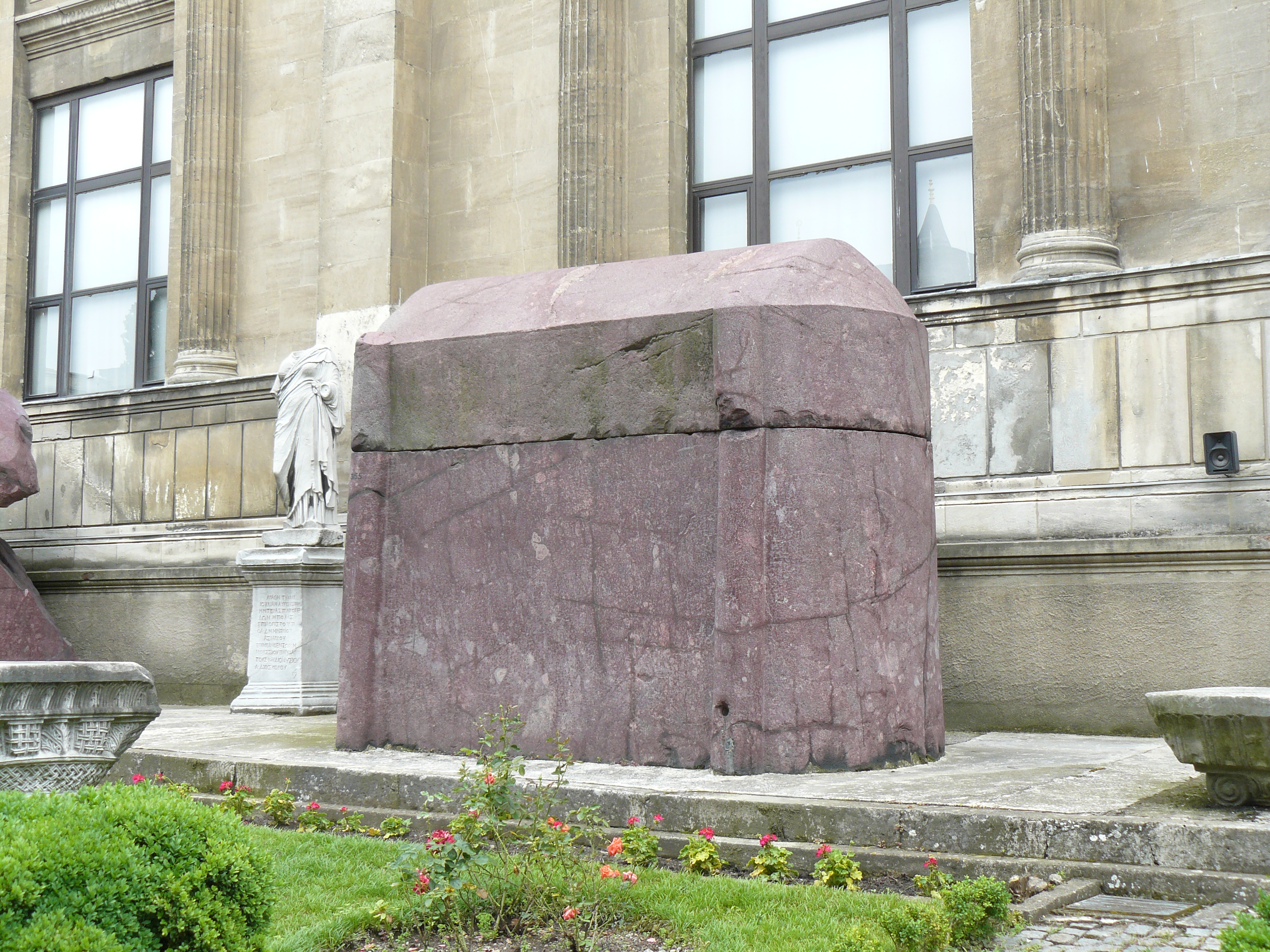 Roman sarcophagus corresponding to Julianus the apostatate Emperor at the Istanbul museum of archeology.